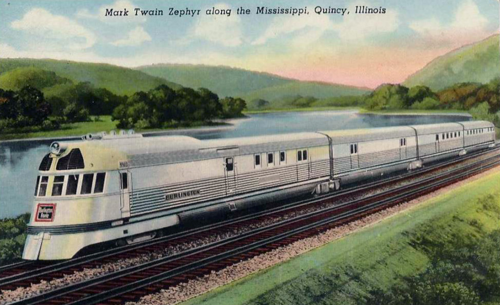 Postcard depiction of the Mark Twain Zephyr.